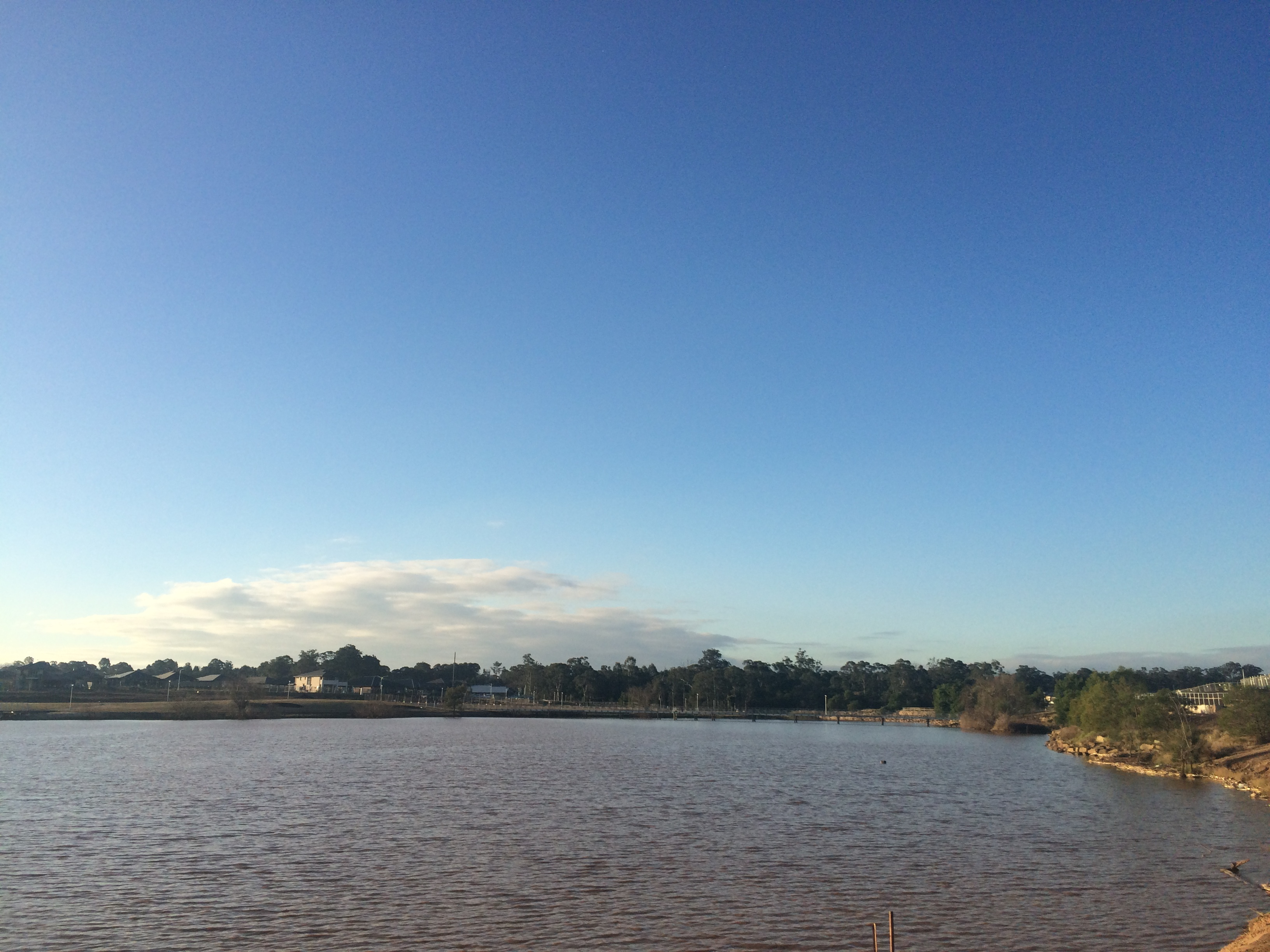 Springs Lake (taken from southern end of Springs Lake)